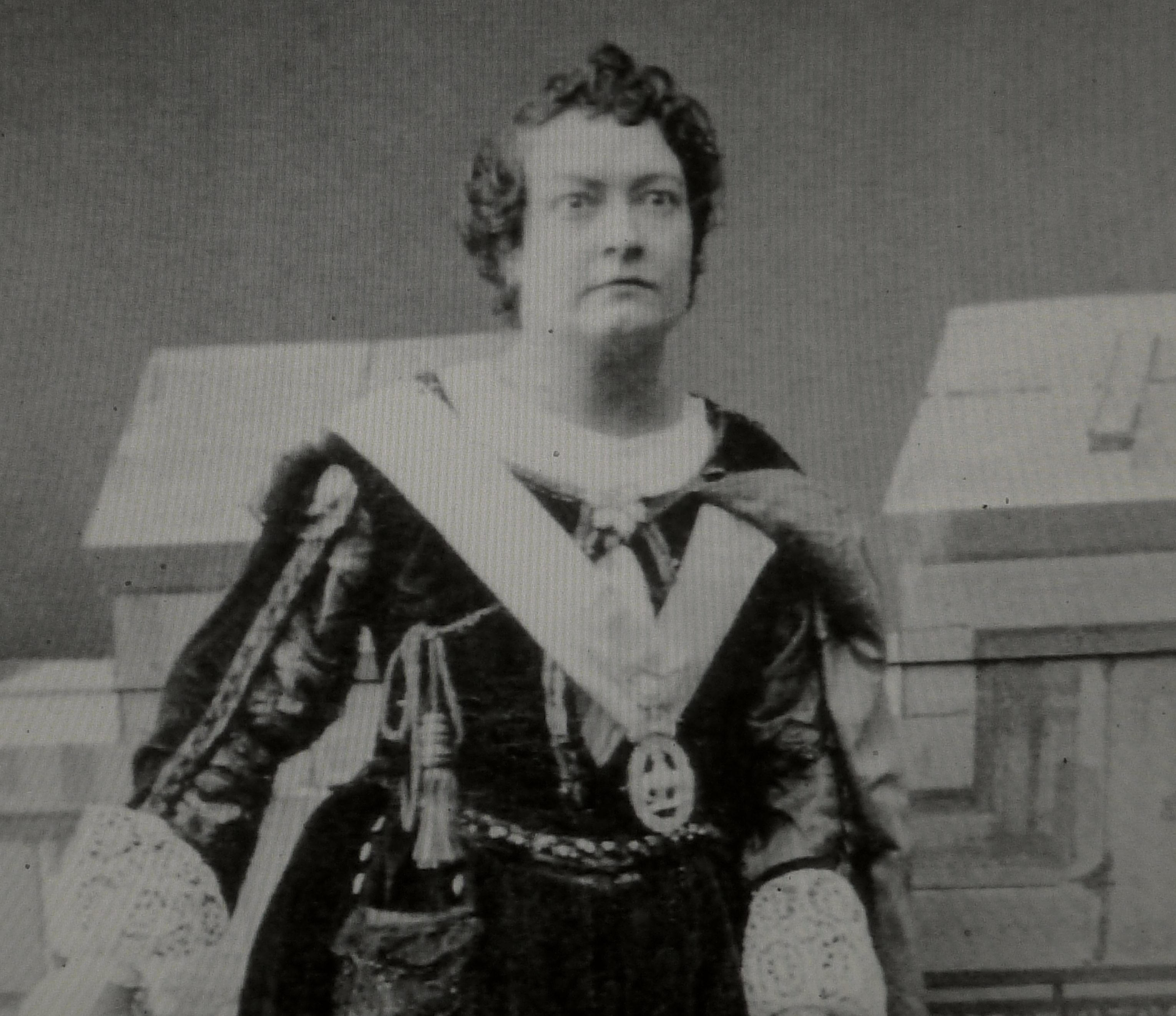 Carte de visite photograph of actress Alice Marriott (1824-1900), as Hamlet at Sadlers Wells Theatre, London.